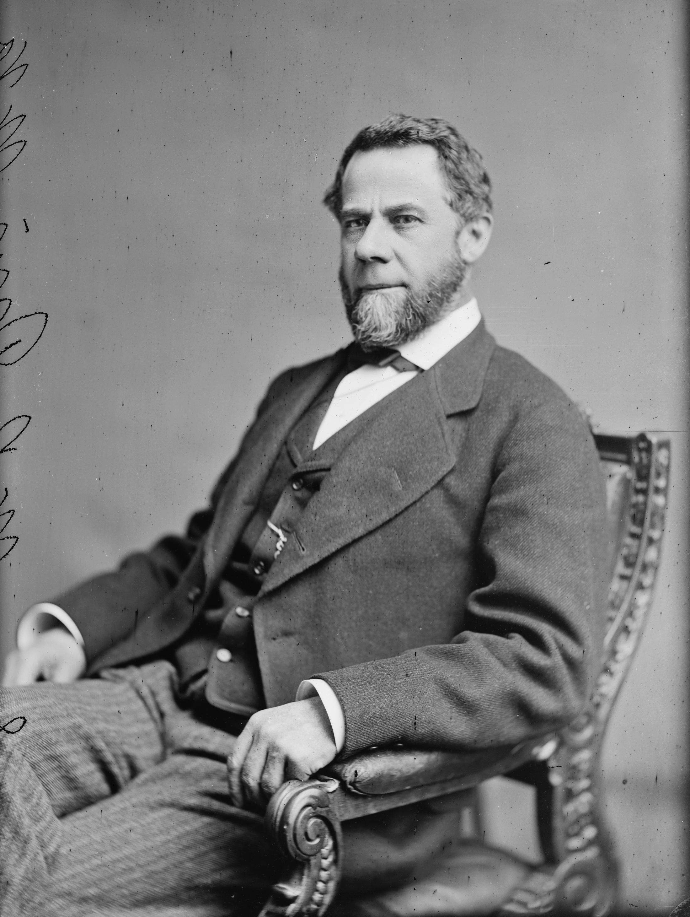 Henry G. Davis. Library of Congress description: "Davis, Hon. Henry G. of W. Va."